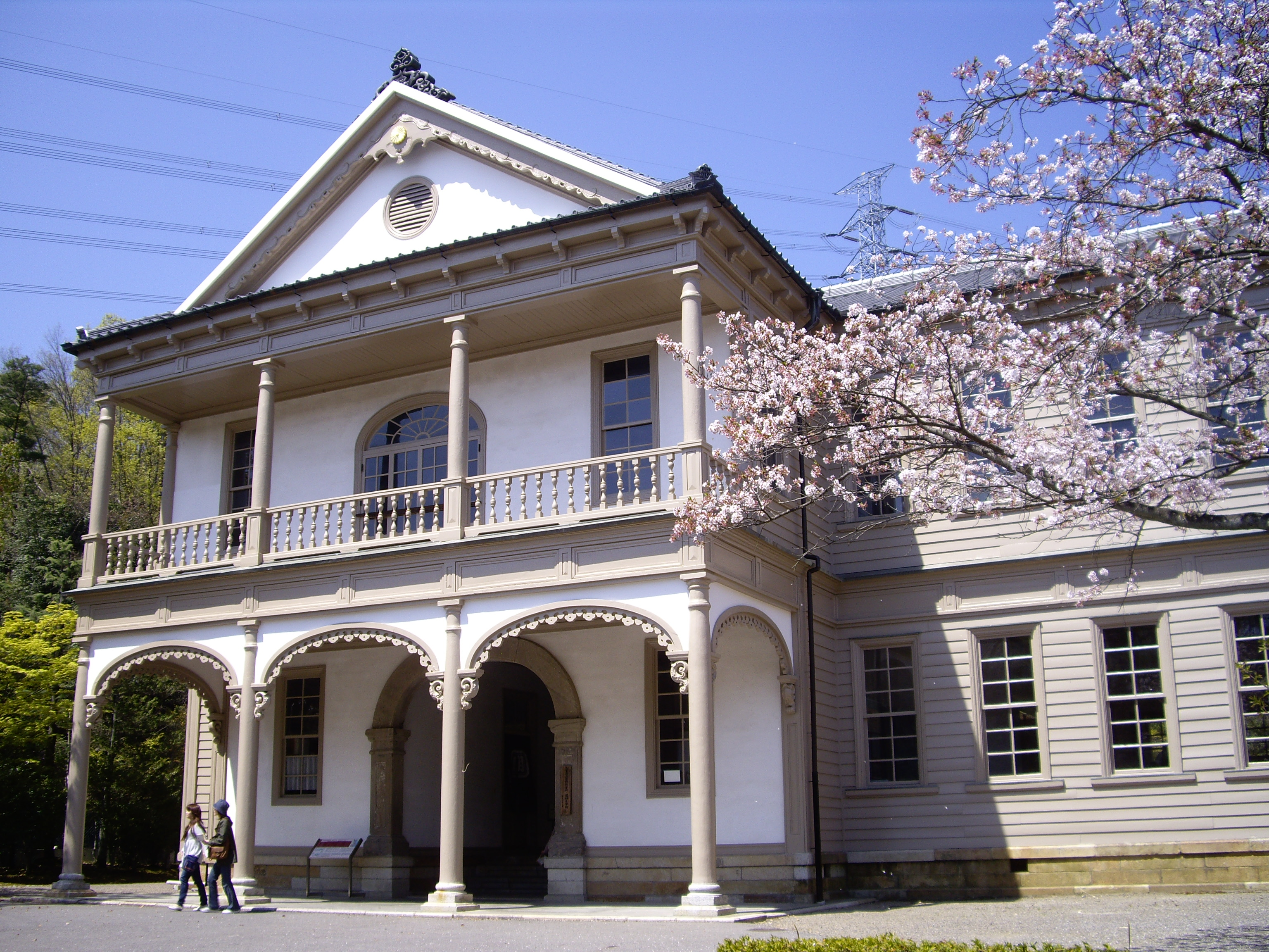 Mie Prefectural Normal School Kuramochi Nabari, Mie-pref., built in 1888